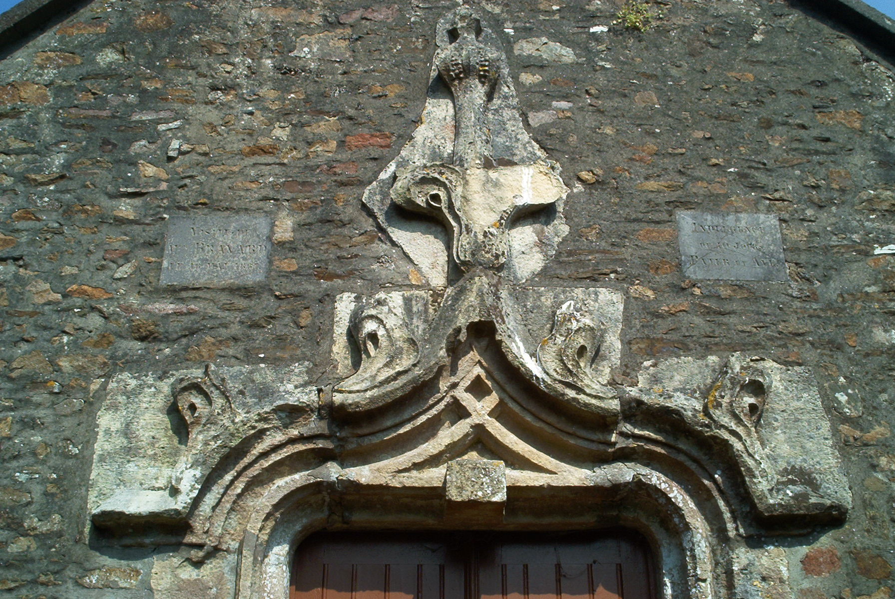 Ogee-shaped arch, portal of the St-Roch chapel in Millières, Manche, France.